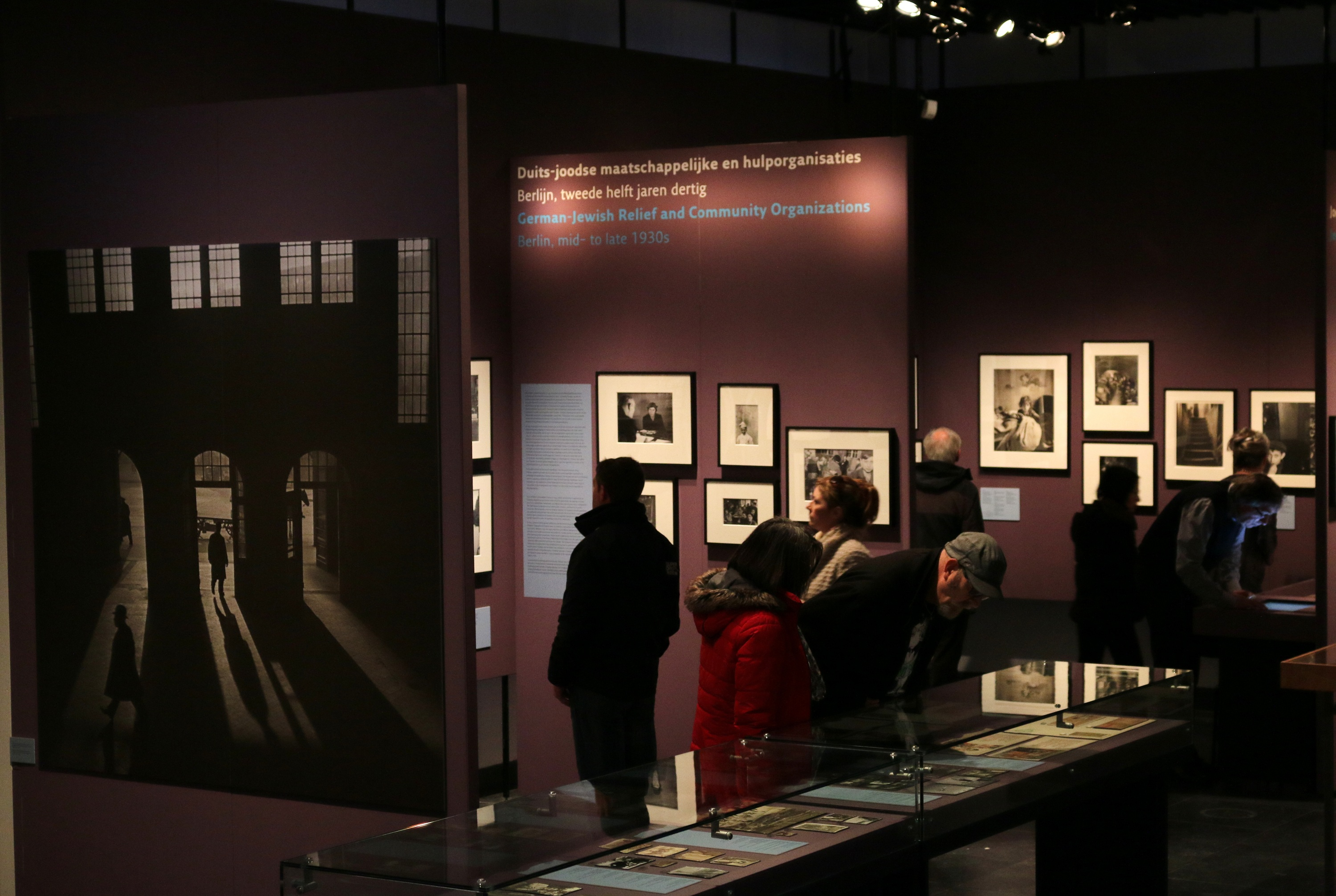 Roman Vishniac Photos Exhibition @ Jewish Historical Museum, Amsterdam - Photo by Persian Dutch Network - April 2014